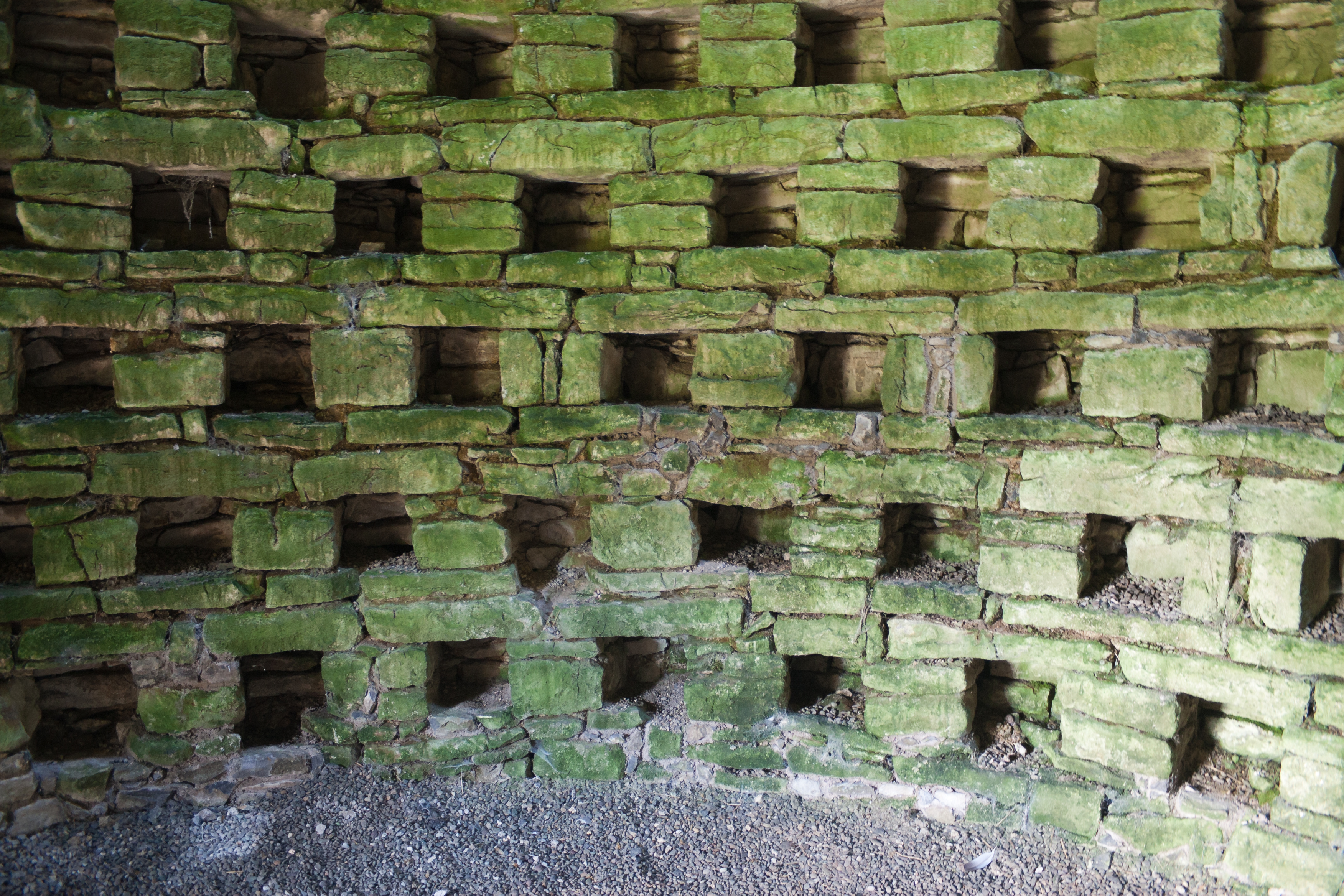 Nesting boxes in the interior of the columbarium tower (dovecote).